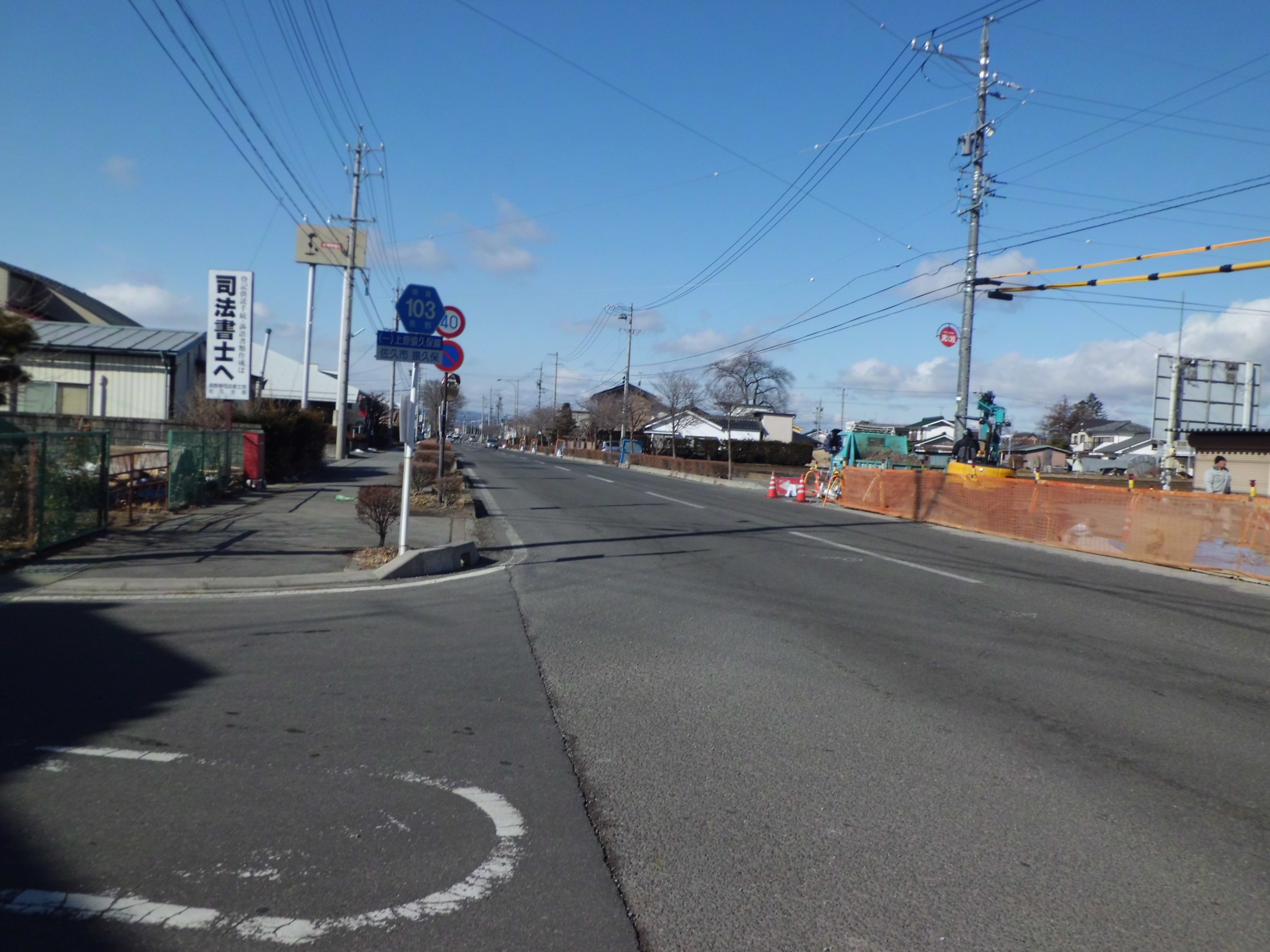 Nagano prefectural road 103 Uehara-Sarukubo line. Looking west from Komaba Park intersection, Sarukubo, Saku city.